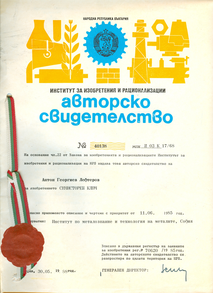 Bulgarian patent (Author's Licence) from 1988